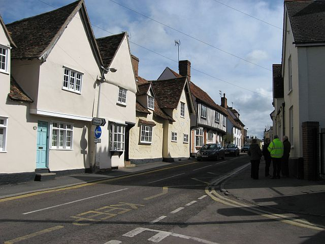 Houses on Linton High Street Note in particular the detailed embossing on the one in the middle. The gentleman in the yellow jacket on the right is a marshal for a fun-run, being interrogated for information on some of the more tardy finishers.